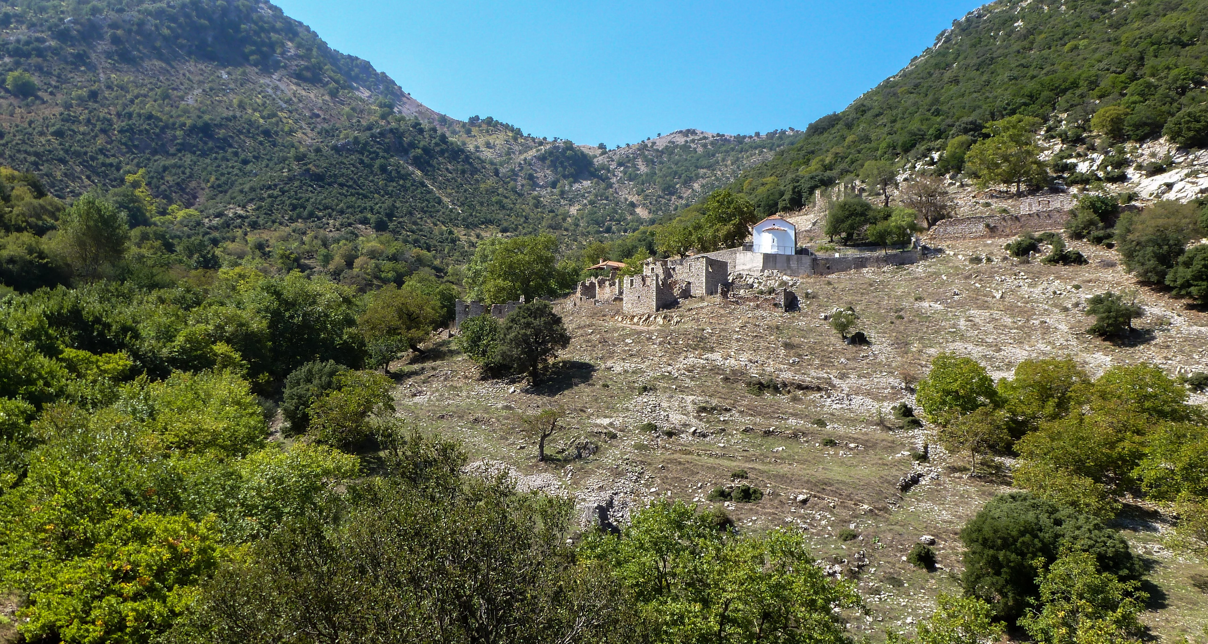 Dechouni, an abandoned village in Achaia, Greece.